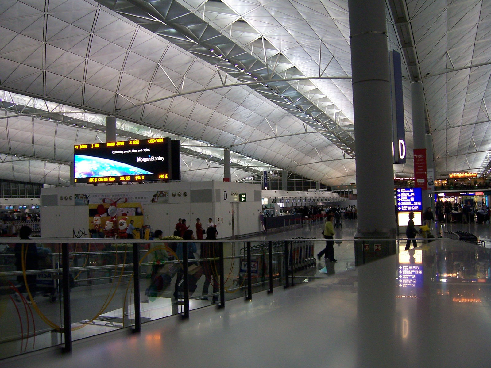 Hong Kong International Airport Taken by Enoch Lau on 3 January 2006. As a courtesy, please let me know if you alter this image or this image description page. Original filename was 100_1362.JPG.